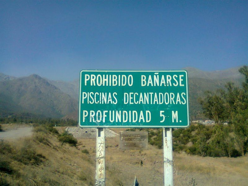 Photographic collection of the Library of the National Congress of Chile.